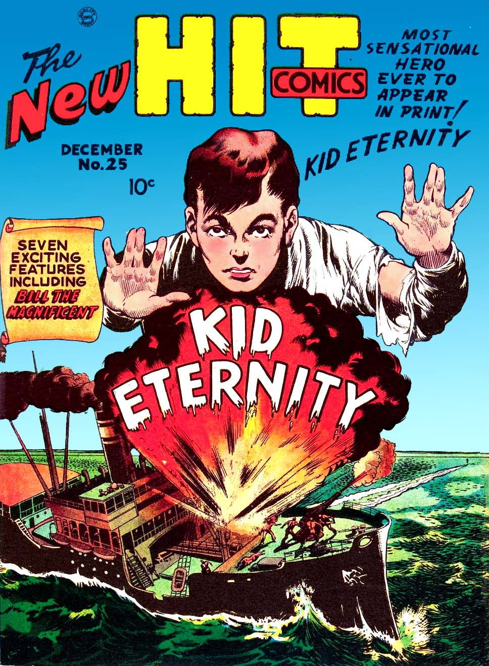 "The Most Sensation Hero Ever to Appear in Print!" Kid Eternity on the cover of Hit Comics number 25 (Quality, number 25, December 1942.